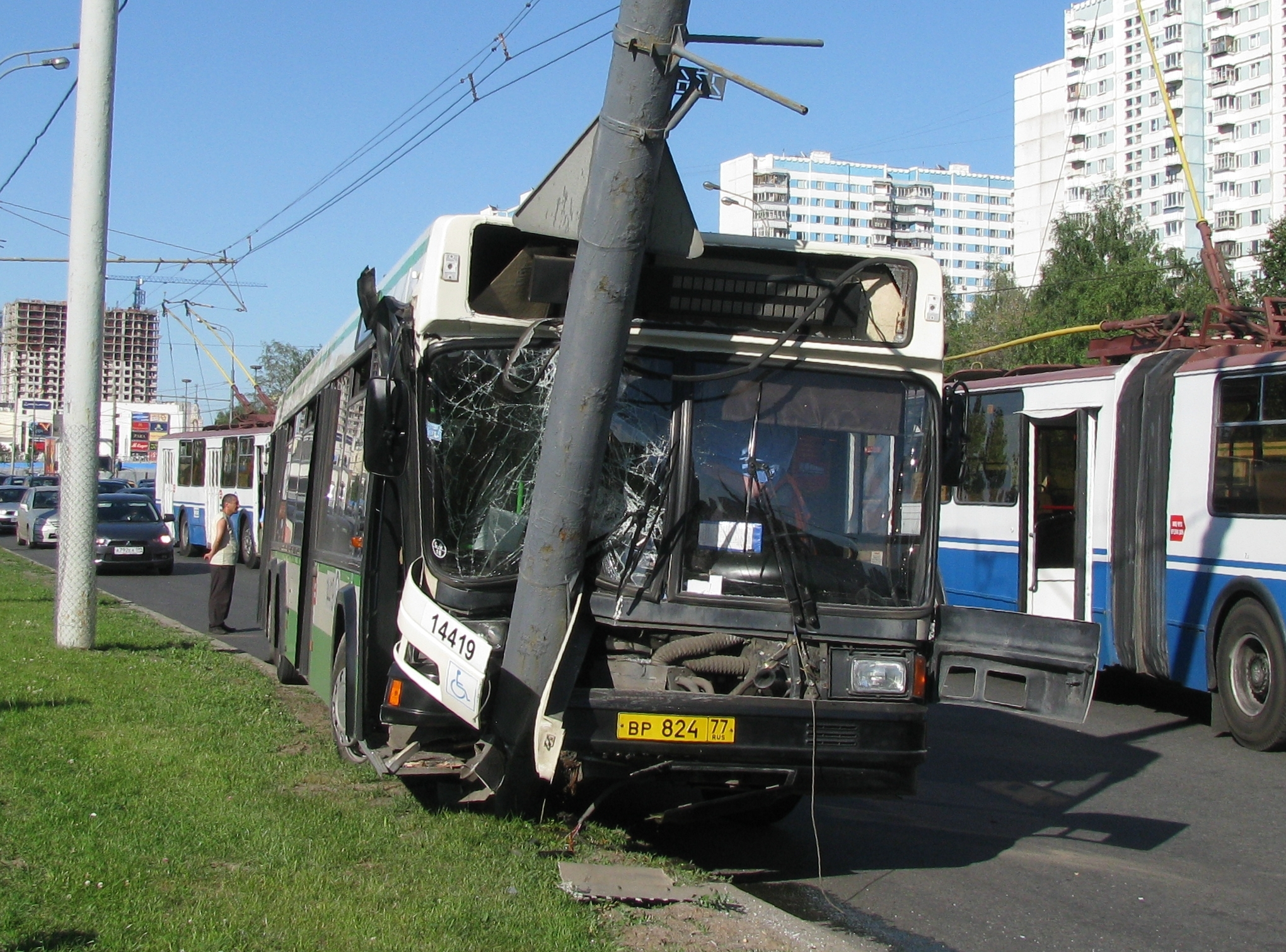 MAZ 107.066 bus (#14419) crash in Moscow. On road there was an automobile car (as one gaper has told, not the first day). Bus hit a utility pole trying to go round this car. At the moment of crash the driver sold the ticket to the passenger. The driver hasn't suffered, however two ambulances has arrived for this passenger. Details of this crash can be found here and biography of this bus here.